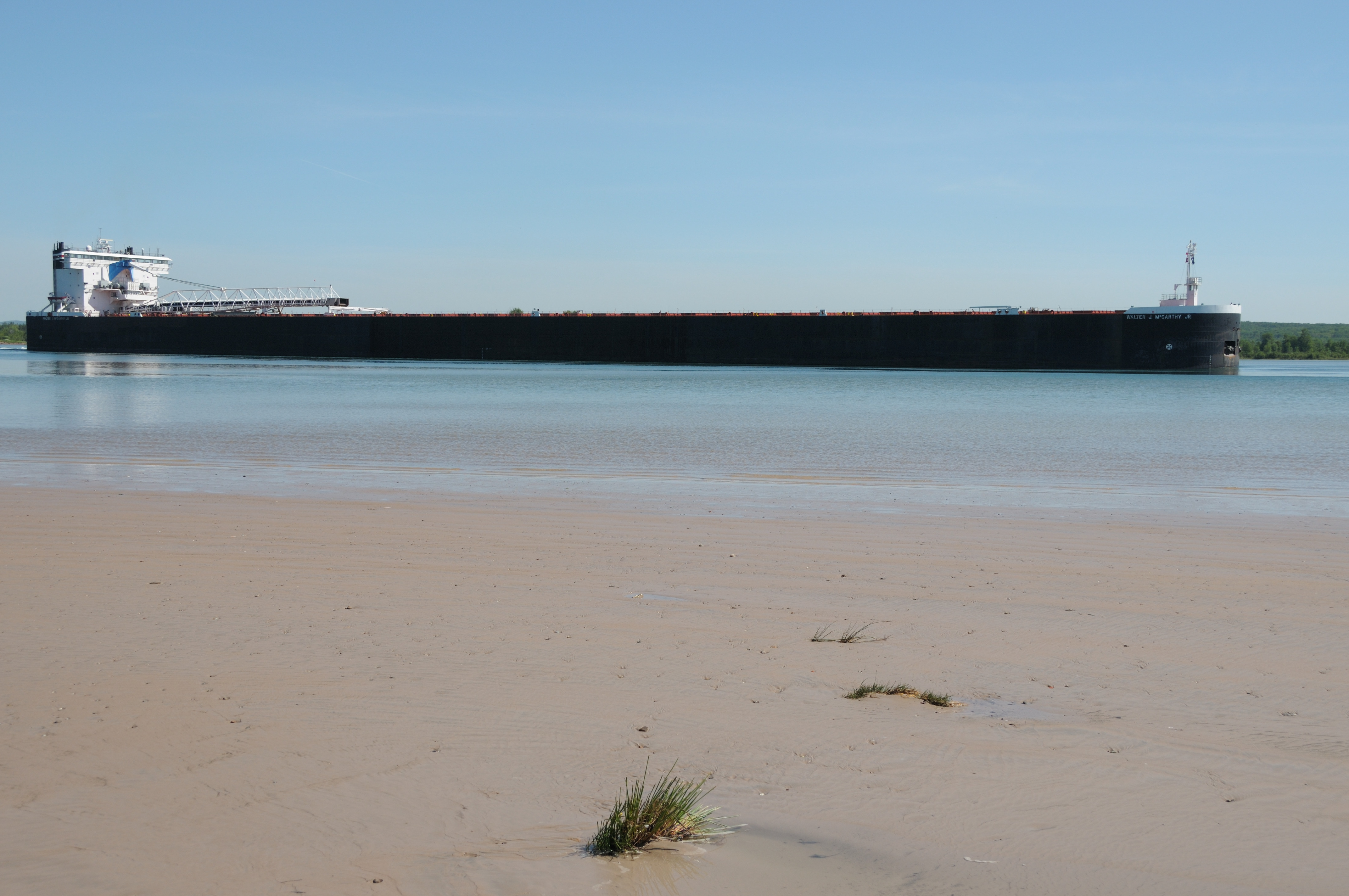 1000 foot freighter in river.